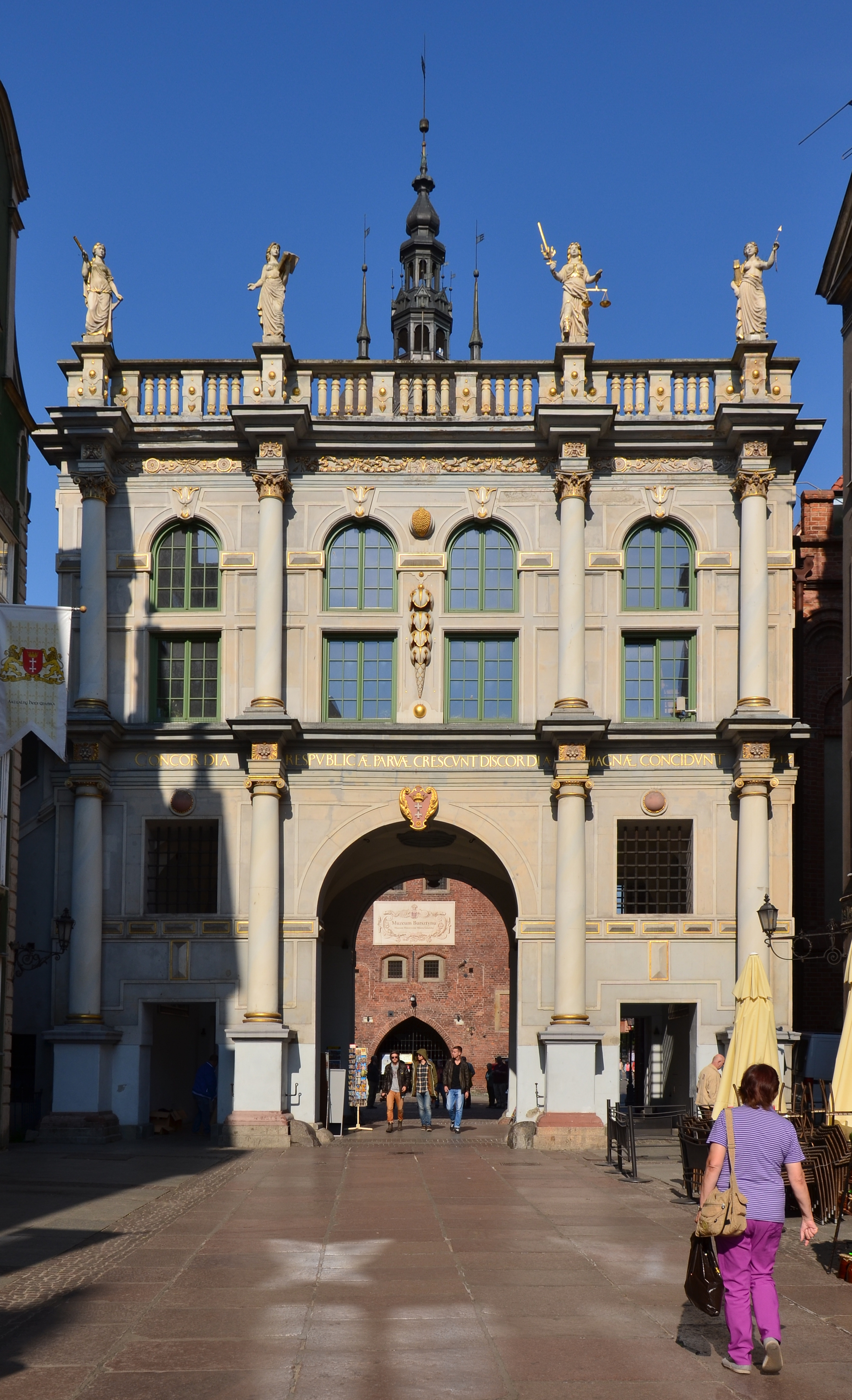 Gdańsk, Golden Gate